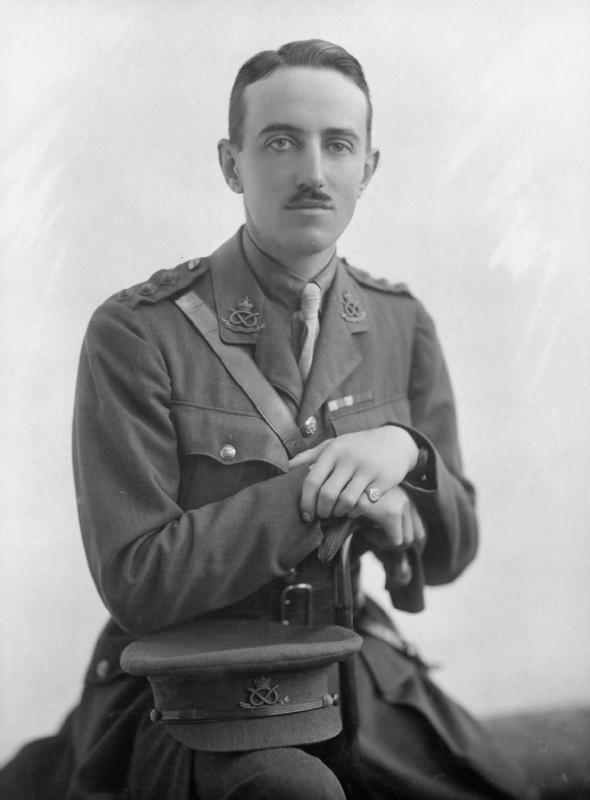 South Staffordshire Regiment Captain R F B Naylor served with a signalling company of the South Staffordshire Regiment. Faces of the First World War Find out more about this First World War Centenary project at This image is from IWM Collections.